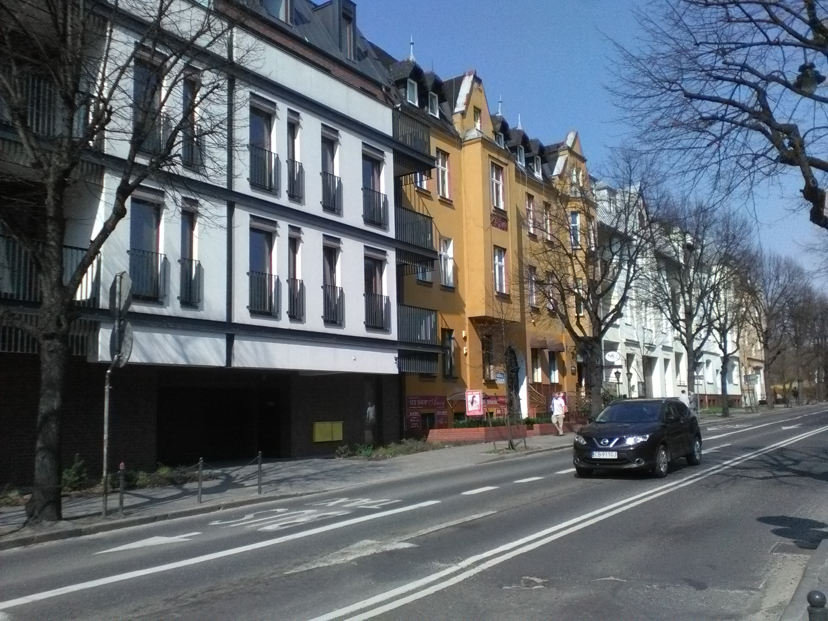 View of some facades